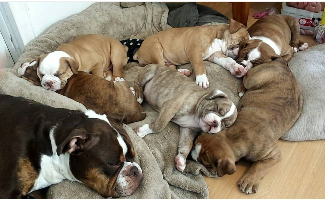 Chubby and puppies. (Montreal, QC, Canada)